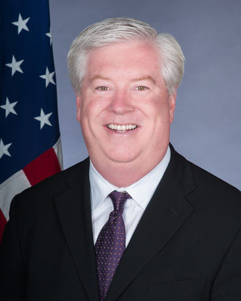 George Edward Glass official Ambassador photo